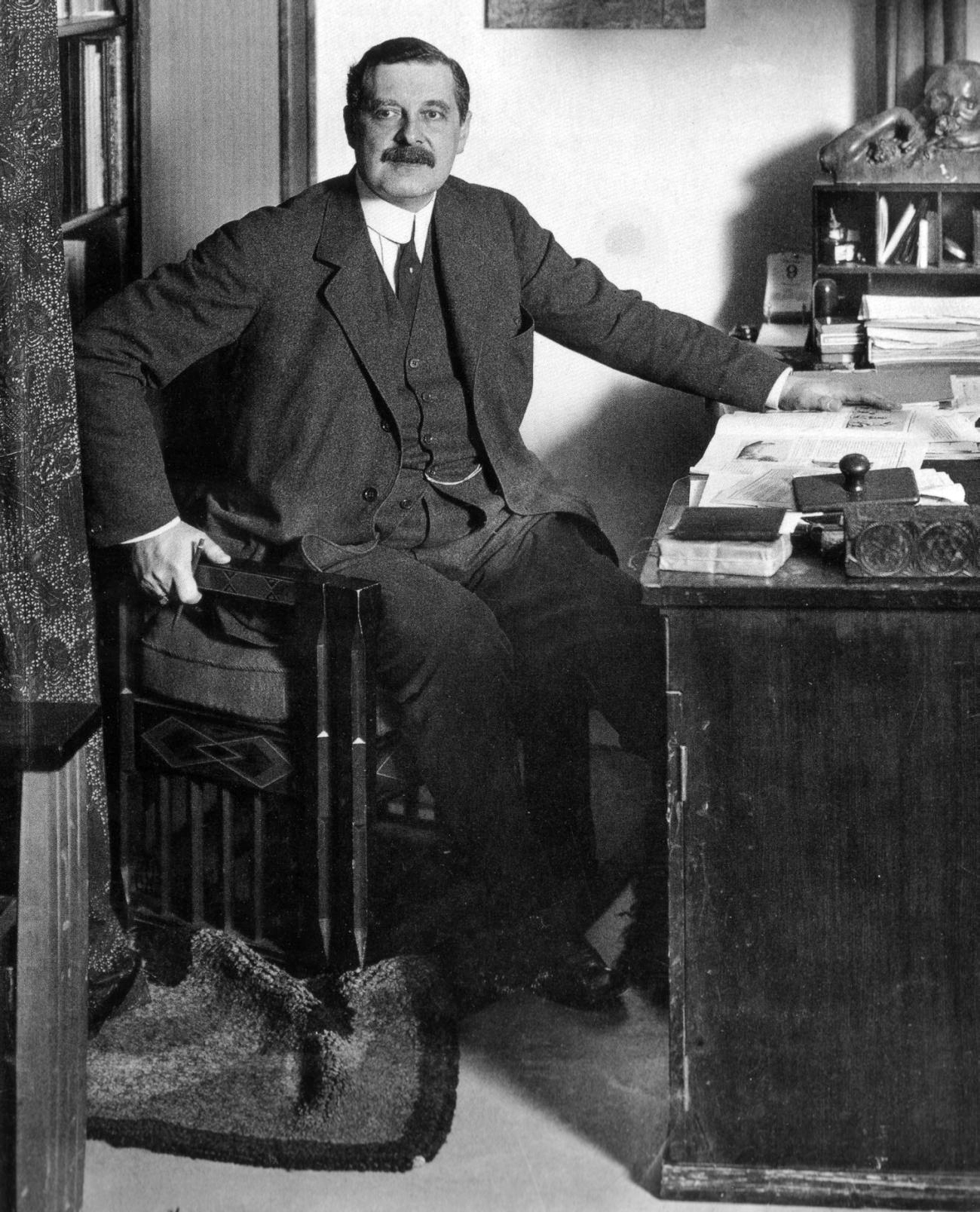 Architect Peter Behrens in his flet.